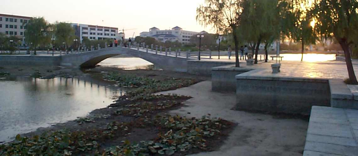 Glenn Smart. Photo taken at Yantai University. Use image for whatever you want.